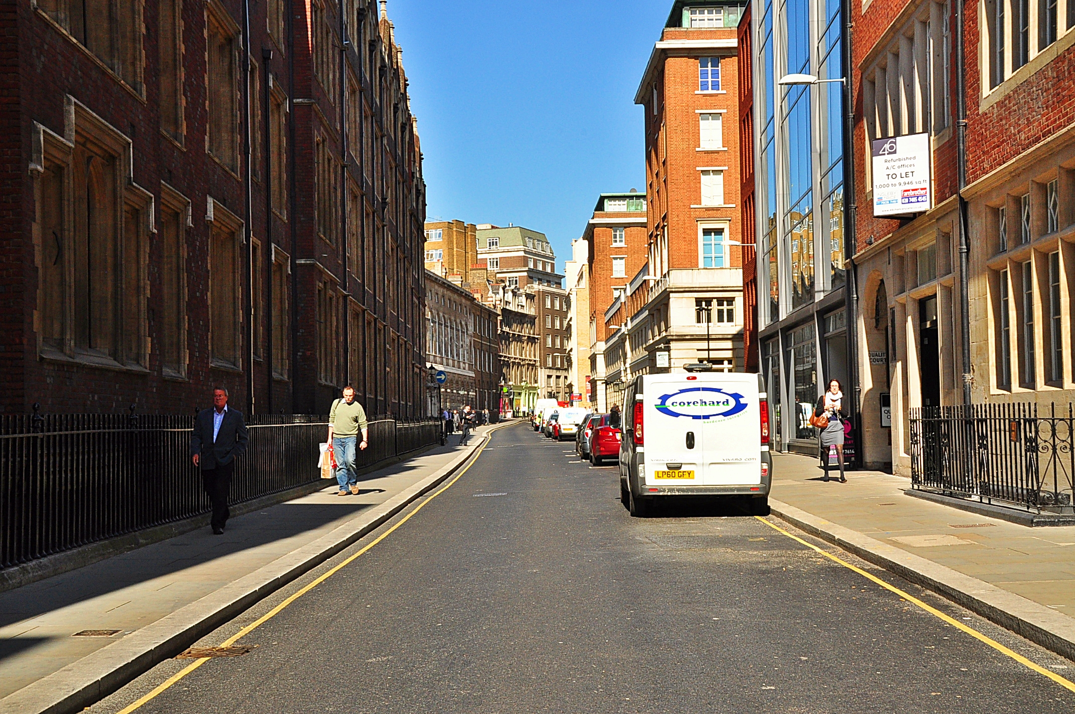 Chancery Lane is the one-way street in City of London, which connects High Holborn at its northerly end and Temple Bar in Fleet Street at the south. Most of the buildings on the left side belong to Lincoln's Inn.